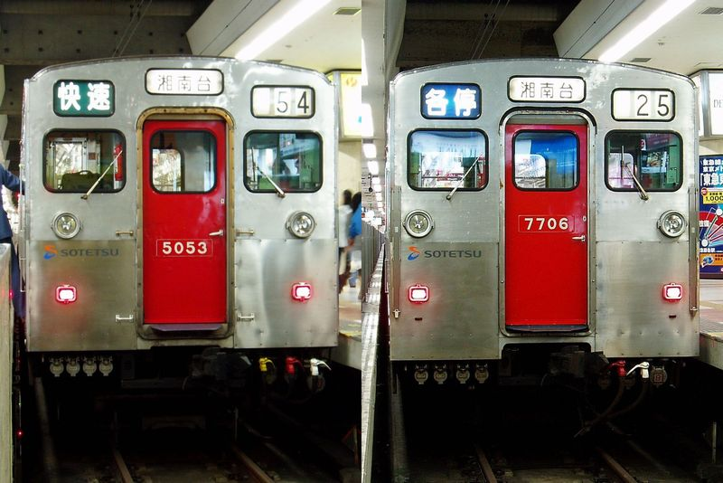 Front view of EMU type 5000 and type 7000 on Sotetsu.